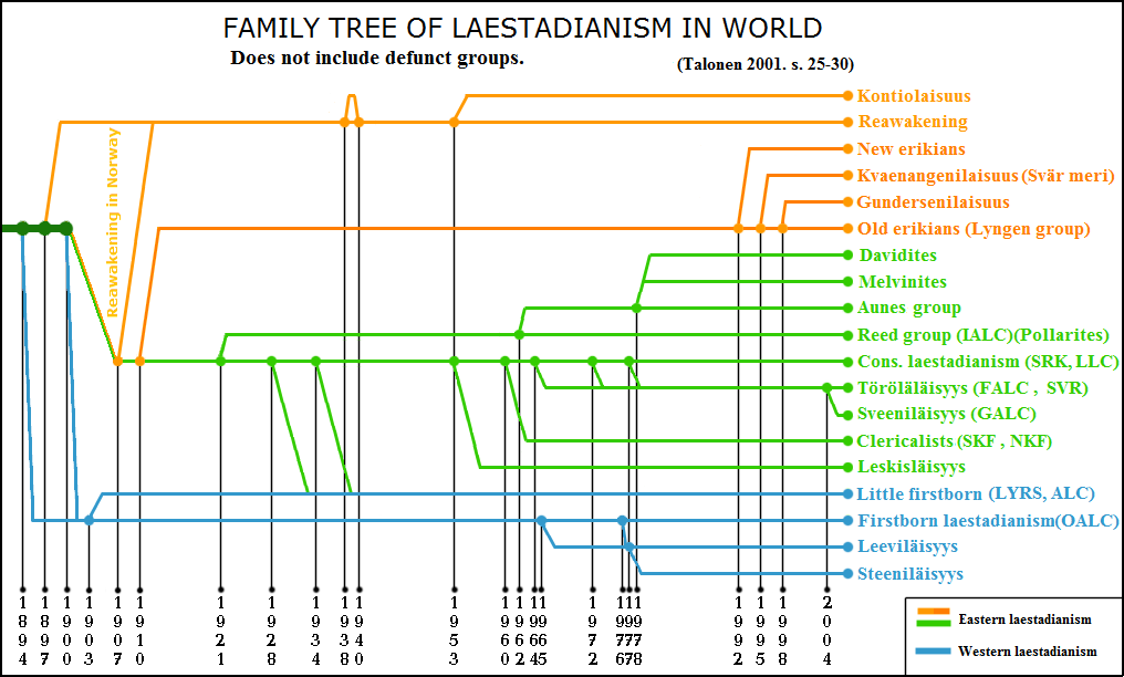 Family tree of laestadianism in world. Does not include defunct groups.